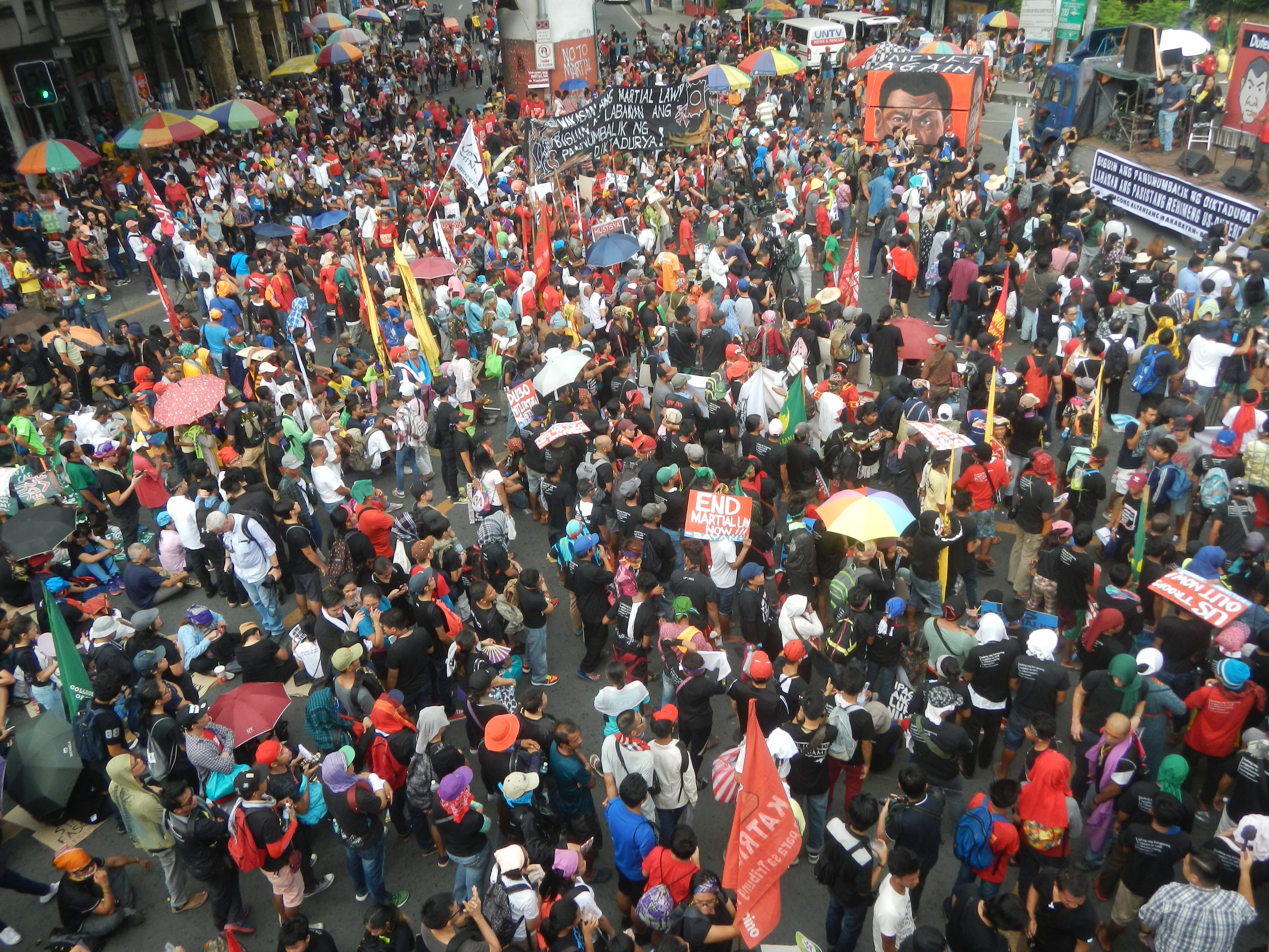 Mendiola Street 14°35'53"N 120°59'34"E Chino Roces Freedom Bridge - Mendiola Street demonstrations and protests ('National Day of Protest', September 21, 2017 - 45th Anniversary of the Proclamation of Martial Law, San Miguel, Manila) Howard Johnson BBC reporter Pedestrian Floating Footbridge (Estero de San Miguel-Chino Roces Freedom Bridge, Barangay 647, San Rafael, San Miguel, Manila) San Miguel, Manila, Estero de San Miguel Linear Park, Estero de San Miguel (Mendiola Street Legarda Street, Recto Avenue, List of rivers and estuaries in Metro Manila in List of barangays of Metro Manila, Legislative districts of Manila 3rd District, Barangay 647, and San Rafael, San Miguel, Manila (Note: Judge Florentino Floro, the owner, to repeat, Donor Florentino Floro of all these photos hereby donate gratuitously, Judge Floro freely and unconditionally all these photos to and for Wikimedia Commons, exclusively, for public use of the public domain, and again without any condition whatsoever).